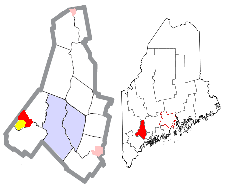 Map of the divisions of Androscoggin County, Maine, United States, with Mechanic Falls highlighted: the census-designated place of Mechanic Falls in red, and the rest of the town of Mechanic Falls in yellow. The cities of Auburn and Lewiston are light blue; other towns are white; and pink areas are census-designated places within other towns.